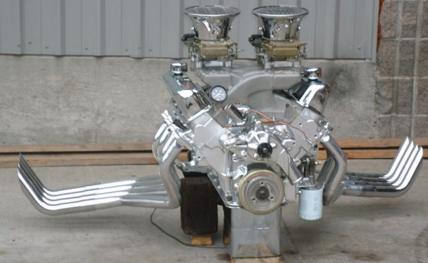 Ford FE prepared for FED installation